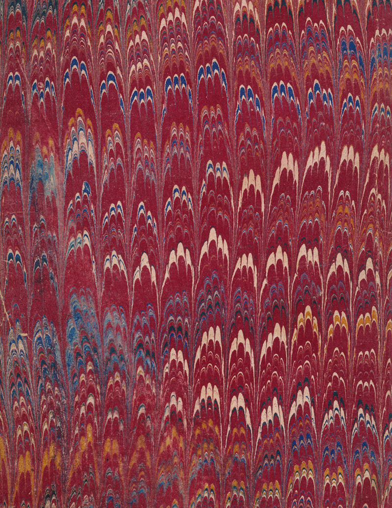 Book board marbling.